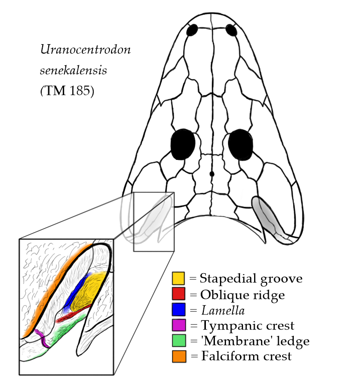 A diagram of the skull of Uranocentrodon senekalensis, a stereospondyl tetrapod from the family Rhinesuchidae. A close-up view of the left otic notch is shown, with colors labeling the characteristic system of otic grooves and ridges which characterize rhinesuchids. The skull used as a template is TM 185, and it is shown in dorsal view Sources: Broom, R. (1930). "Notes on some Labyrinthodonts in the Transvaal Museum" : Outline of the skull of Uranocentrodon to use as a template. Mariscano et al. (2017). "The Rhinesuchidae and early history of the Stereospondyli (Amphibia: Temnospondyli) at the end of the Palaeozoic" : Information and imagery on the otic cavity. Eltink et al. (2016)."The cranial morphology of the temnospondyl Australerpeton cosgriffi (Tetrapoda: Stereospondyli) from the Middle-Late Permian of Paraná Basin and the phylogenetic relationships of Rhinesuchidae" : Information and imagery on the otic cavity.